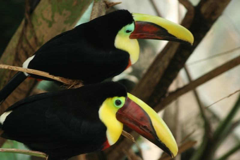 Two Chestnut-mandibled Toucans (Ramphastos swainsonii). Photo taken at Niagara Falls.